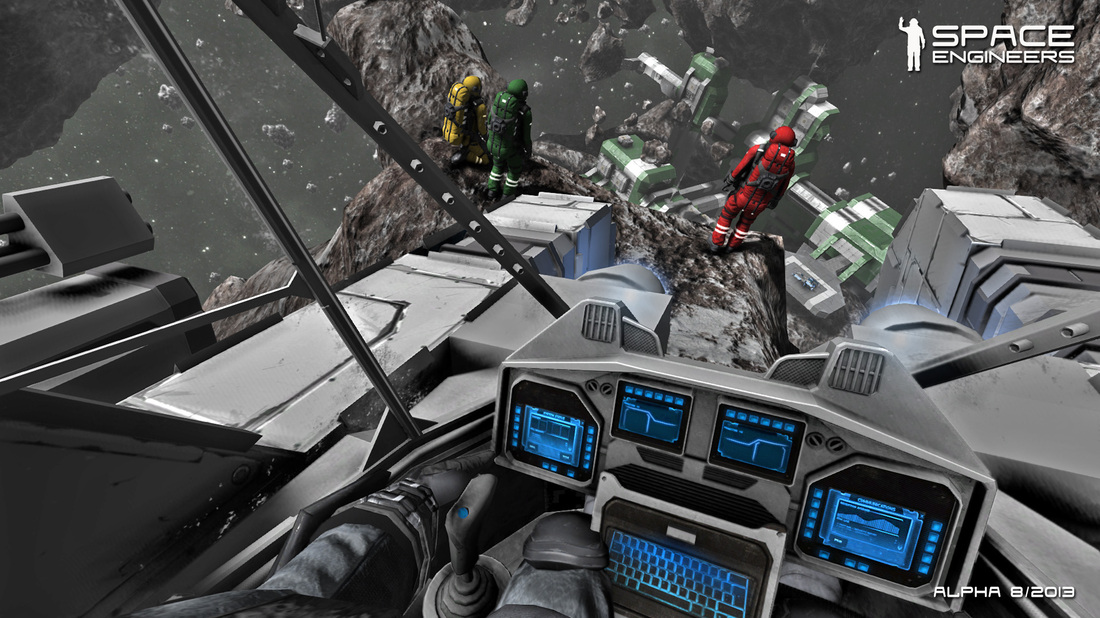 Screenshot of the game showing an astronaut piloting a small ship from the cockpit.